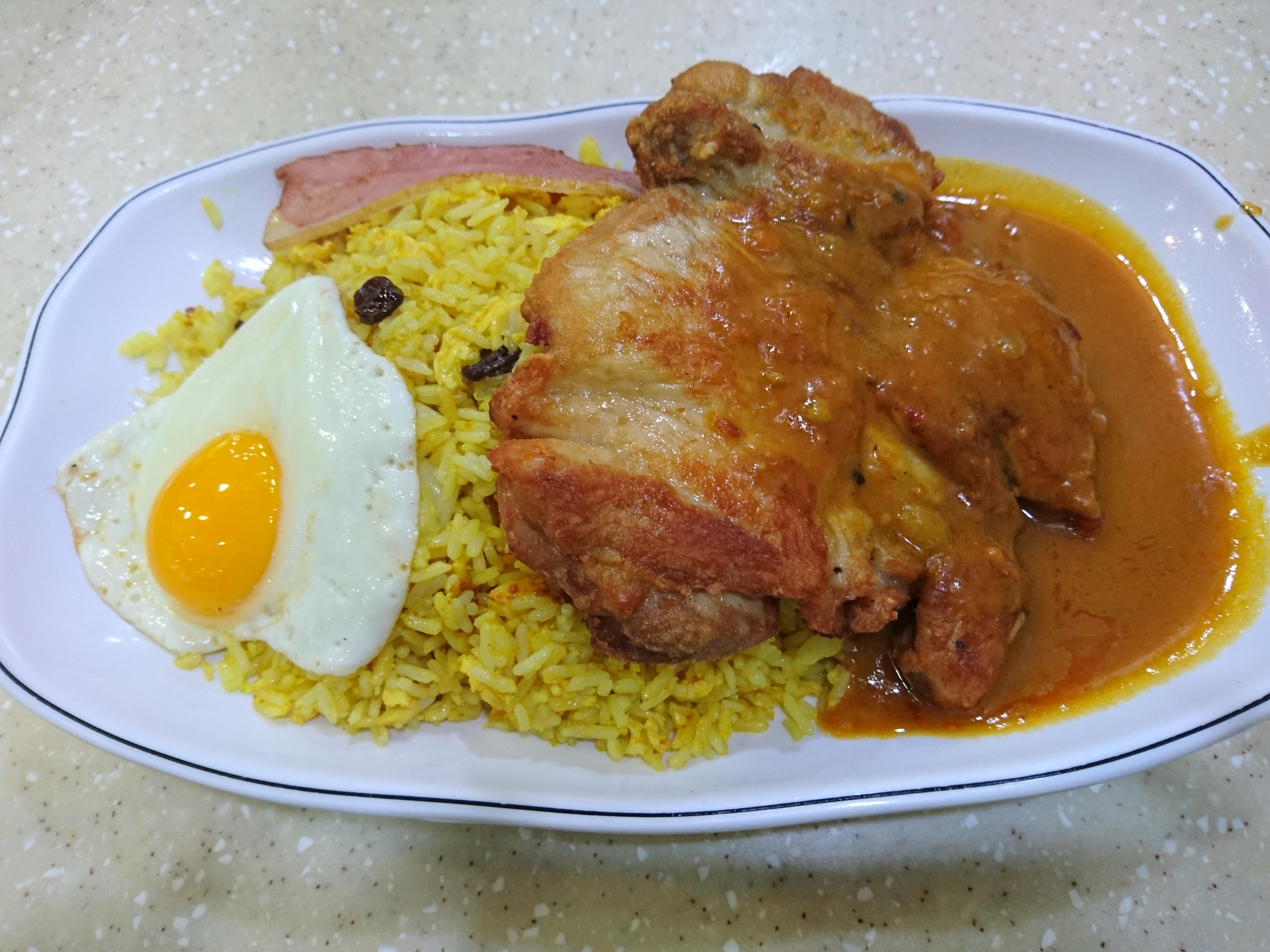 Chicken Fillet, Bacon & Egg with Rice